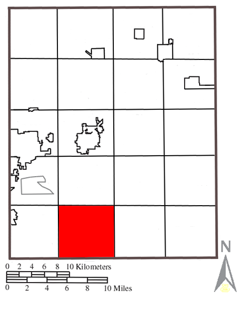 Map of Portage County, Ohio with Randolph Township highlighted.